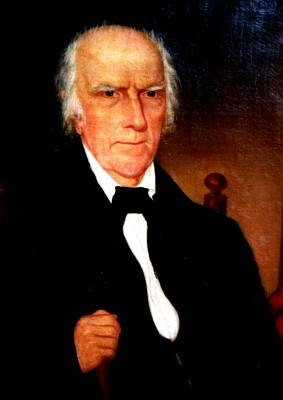 Major John Redd, born 25 October 1755 in Orange County, Virginia, was one of the first settlers of Henry County, Virginia, where he served as a Major in the forces of the American Continental forces in the Revolution, and where he later served as High Sheriff of the county as well as a member of the county court for 40 years. Redd married Mary Winston Carr Waller, daughter of Col. George Waller and his wife Ann Winston Carr Waller, first cousin of Virginia governor Patrick Henry. Major Redd built 'Belleview' Plantation, listed on the National Register of Historic Places. Buried in the Redd family graveyard at Belleview is Rev. John James Fontaine, grandson of Patrick Henry, who married Mary Carr Redd, granddaughter of Major John Redd.